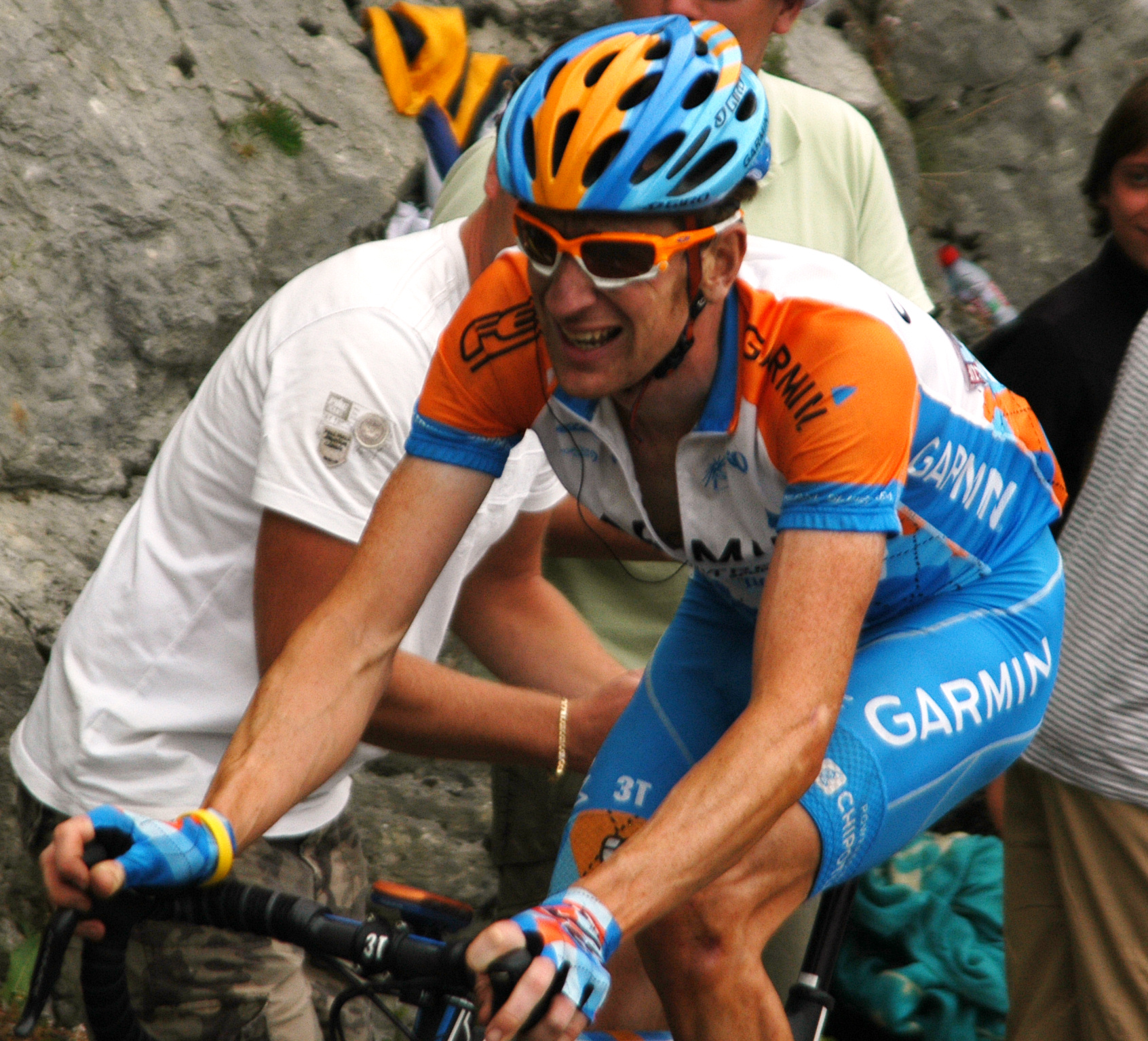 Bradley Wiggins (GBR) at stage 17 of the 2009 Tour de France on the Col de la Colombière.